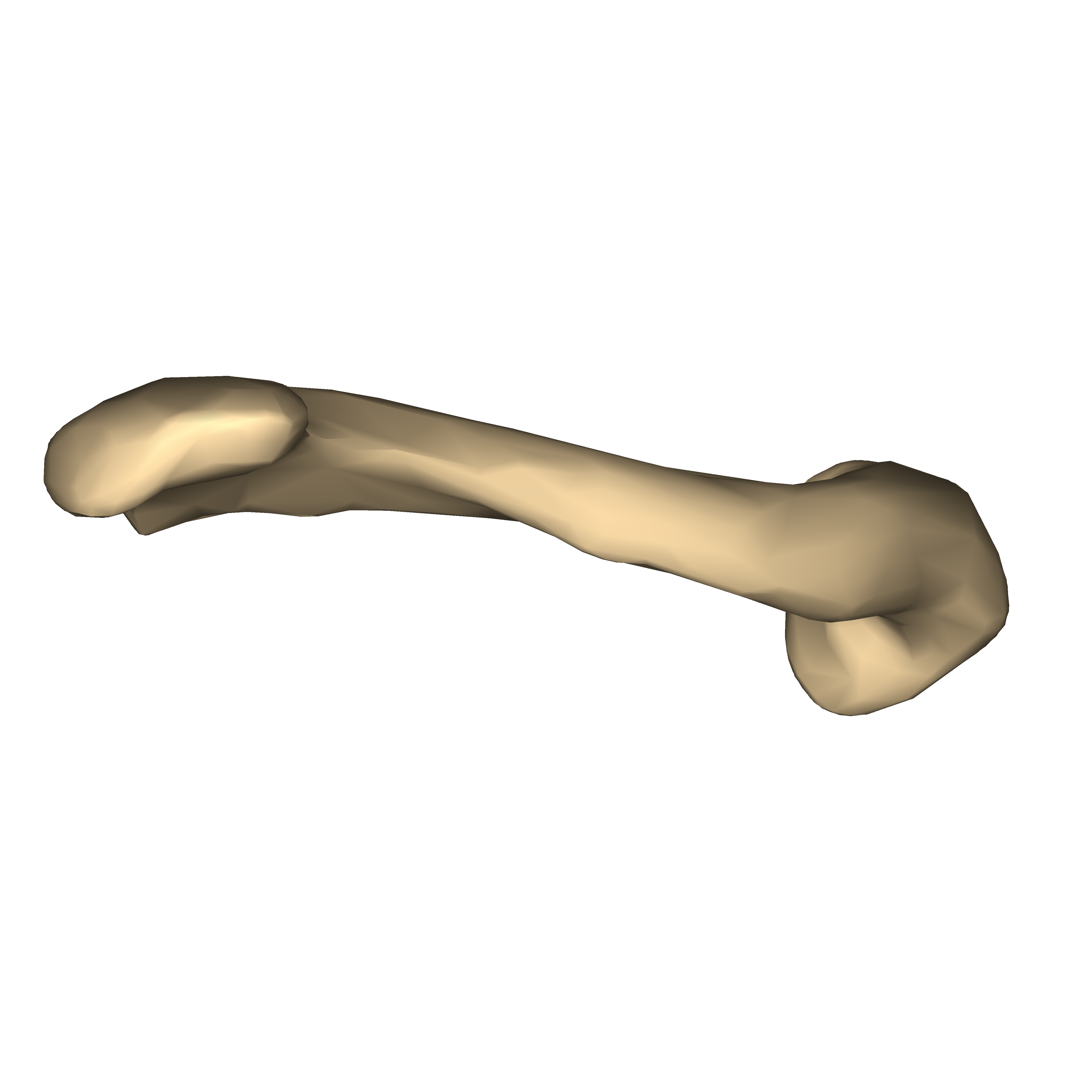 Right clavicle.